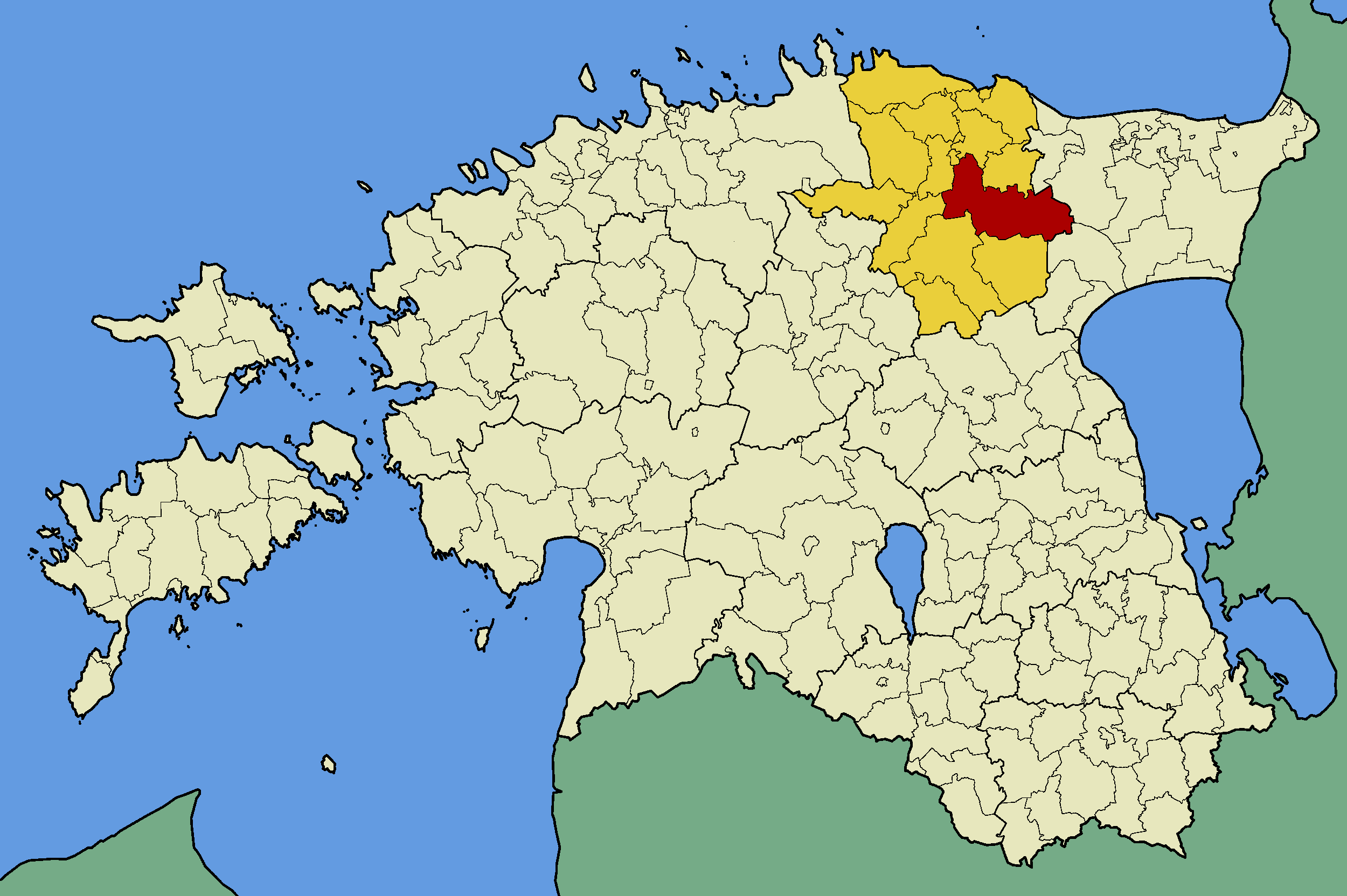 Map of Estonia with borders of municipalities (parishes). Lääne-Viru county and Vinni municipality emphasized.